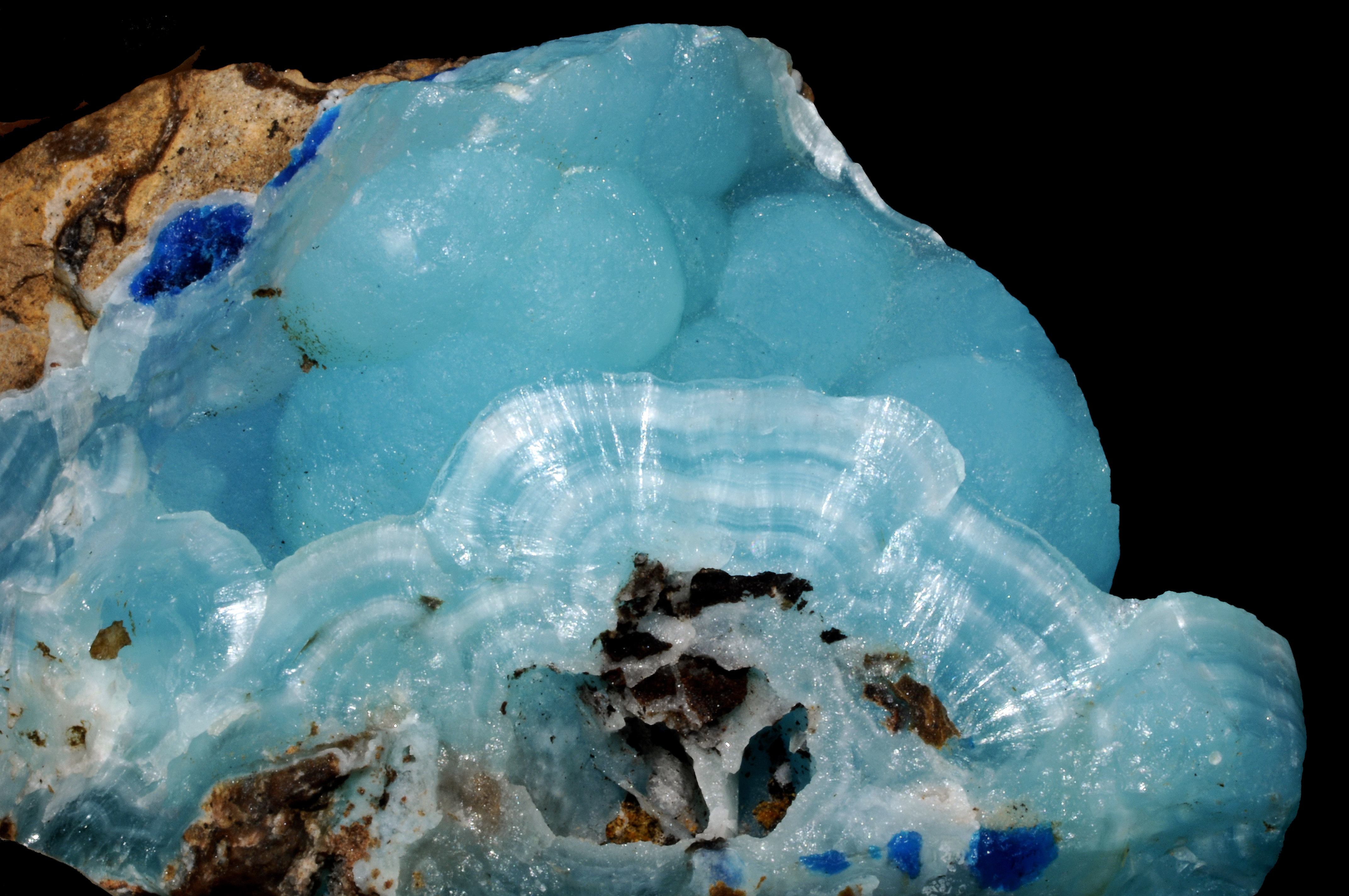 crystals of hemimorphite : Laochang ore field (Laochang Mine), Eastern Sub-District, Gejiu Sn-polymetallic ore field, Gejiu Co., Honghe Autonomous Prefecture, Yunnan Province, China